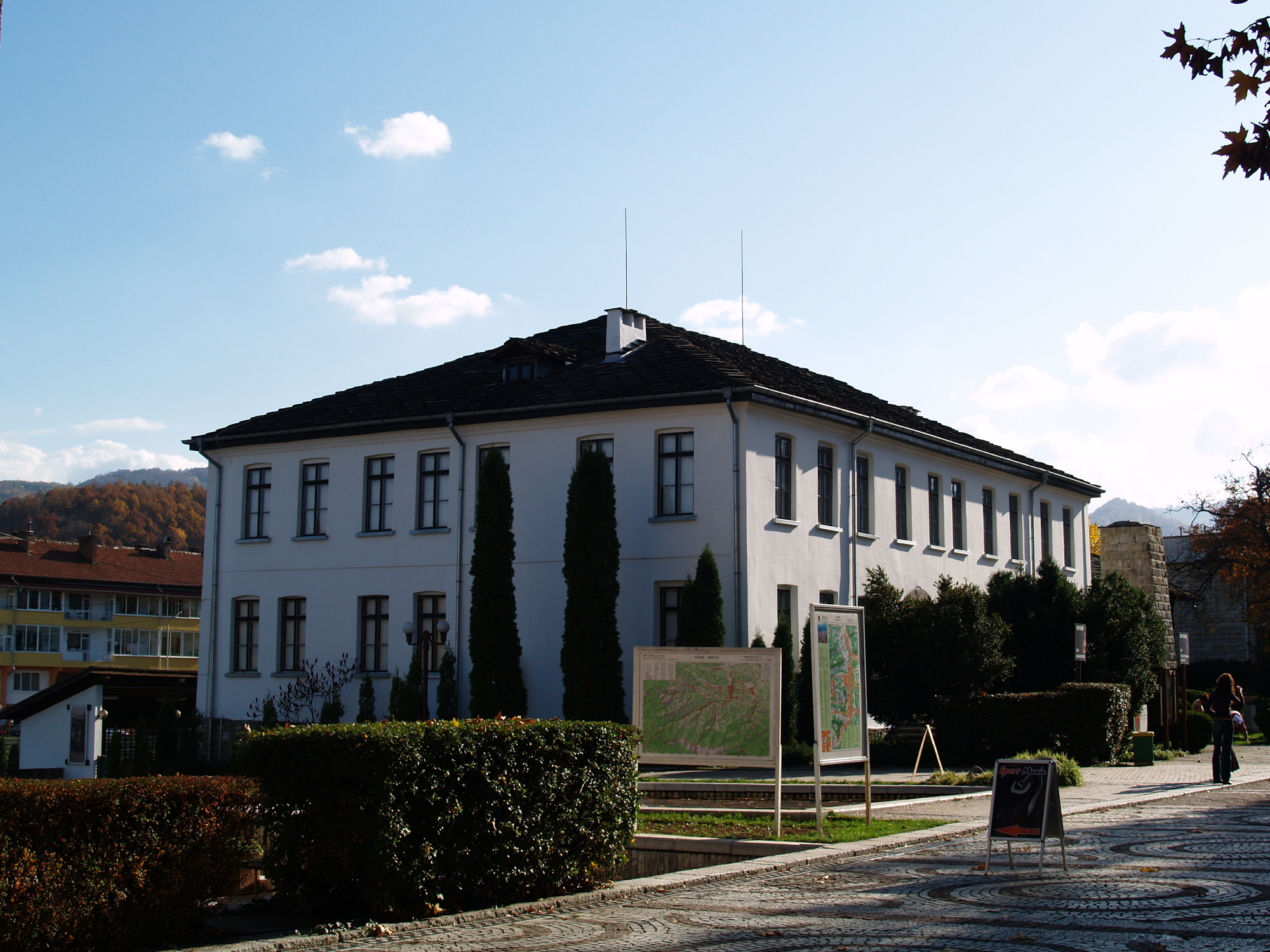 Troyan Museum of traditional crafts and applied arts, Bulgaria